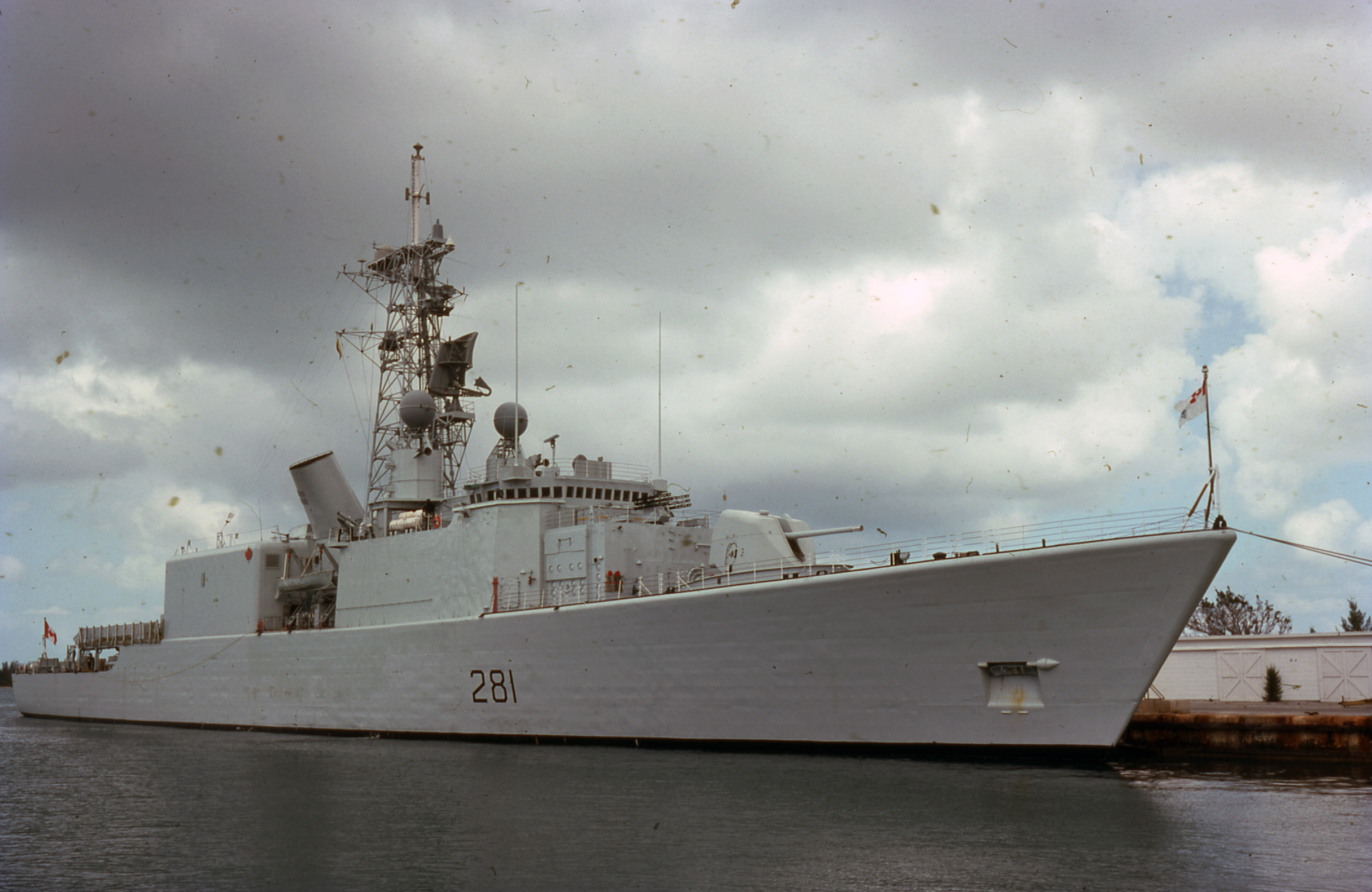 Canadian DD 281 at Trumbo Point pier in 1976. Photo by Raymond L. Blazevic.